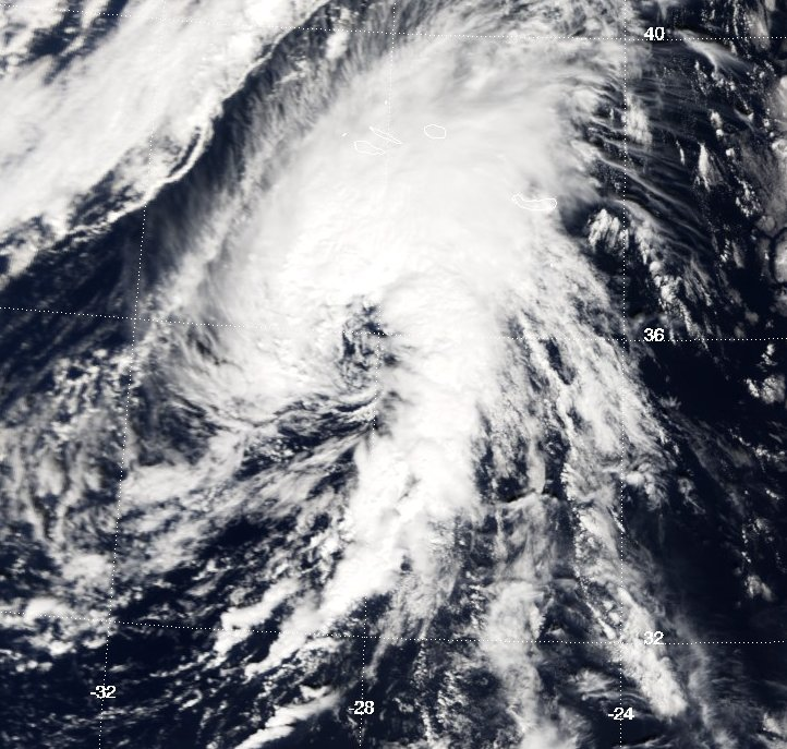 This image shows an unnamed Subtropical Storm south of the Azores at 1220 UTC on October 4, 2005